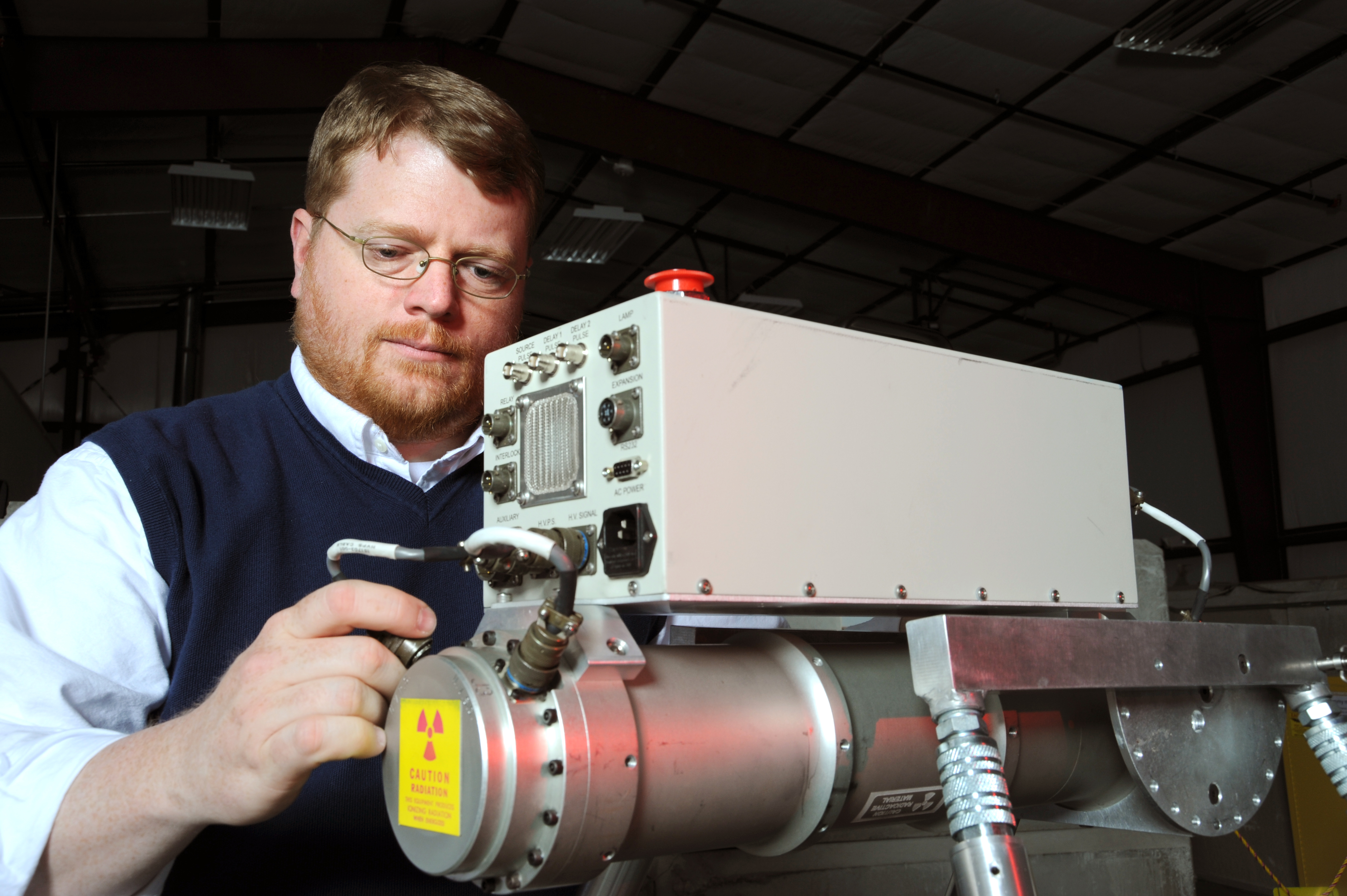 An INL nuclear physicist prepares to run an experiment using an electronic neutron generator. For more information about INL's research projects and career opportunities, visit the lab's facebook site.